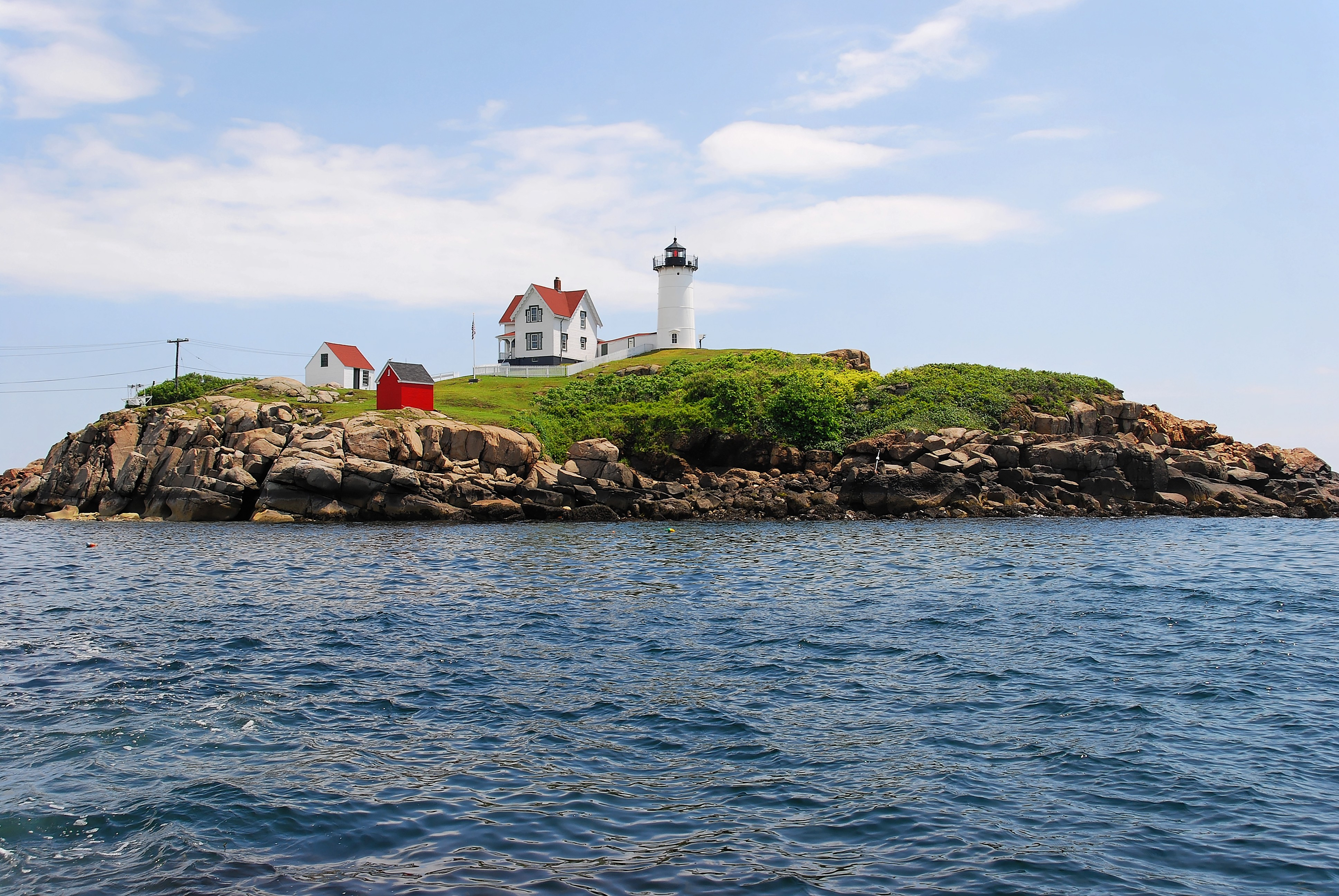 Cape Neddick ("Nubble") Lighthouse, York Beach, Maine, U.S.A.